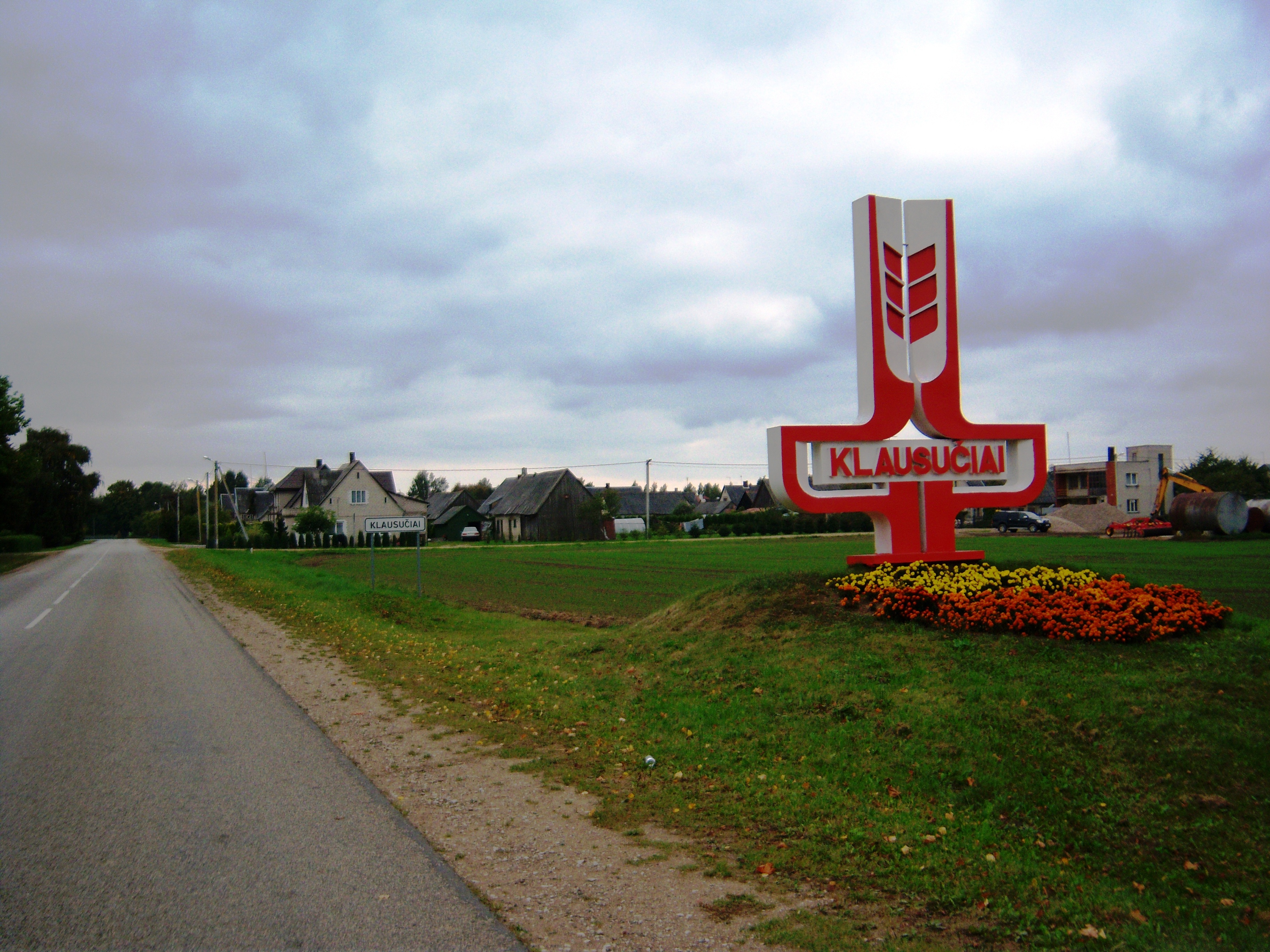 Klausučiai, Vilkaviškis District, Lithuania